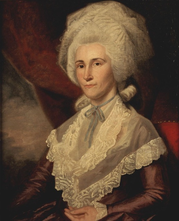 Title Mrs. James Duane (1738-1821). Creator / Contributor Earl, Ralph, 1751-1801 Identifier 1948.55 Date 1787 Description Oil on canvas. Material type or medium of original Paintings (visual works) Physical Description 30 × 24 1/2 in. (76.2 × 62.2 cm)